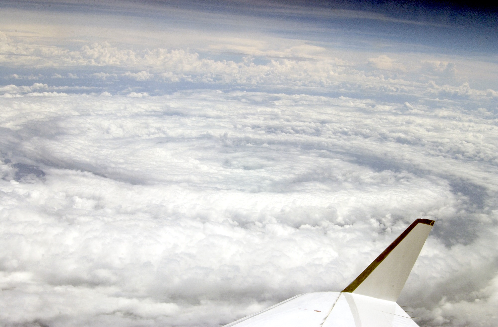 Tropical Storm Edouard image taken by scientists aboard NOAA’s Gulfstream-IV “hurricane hunting” aircraft during a surveillance mission